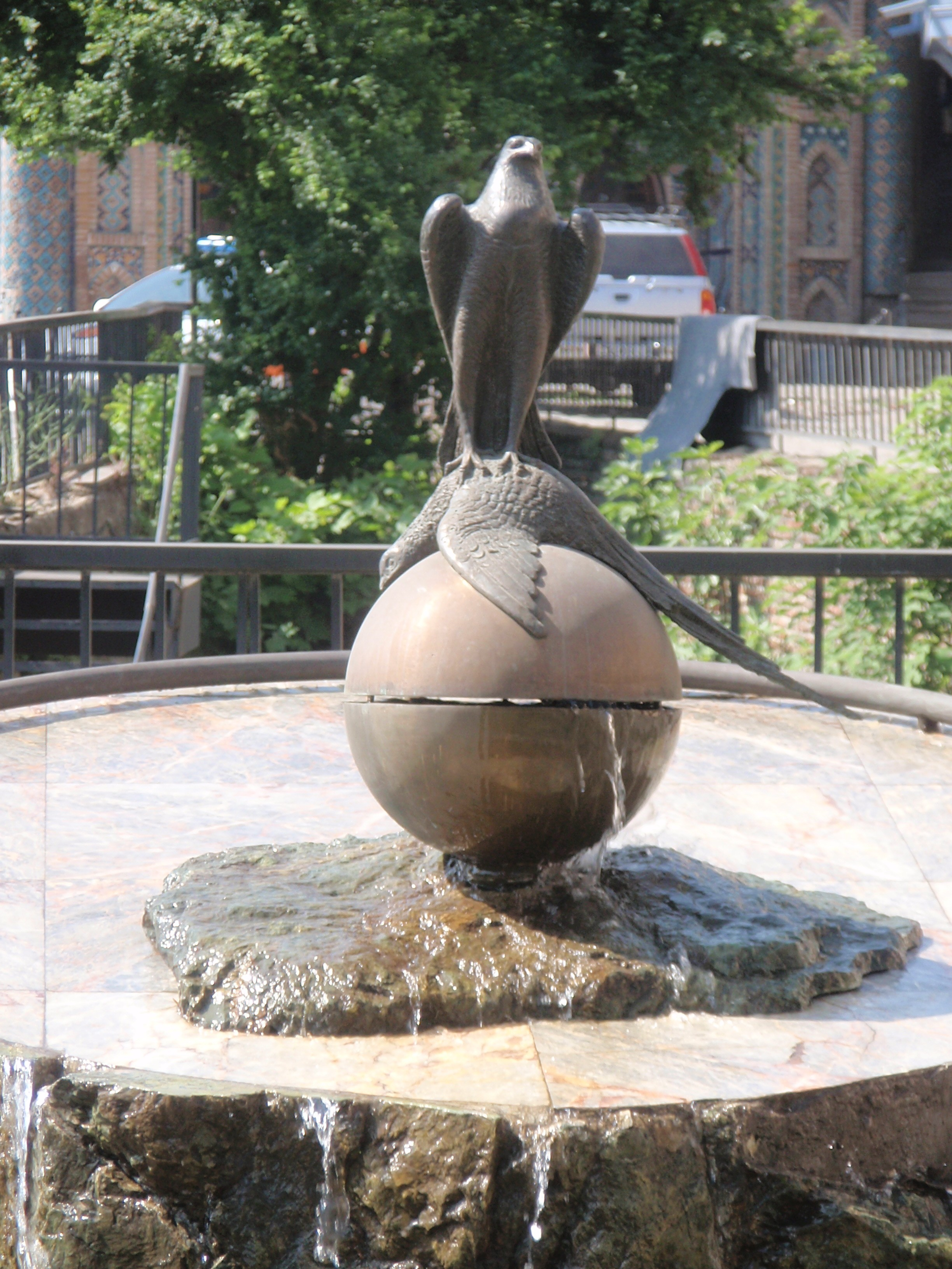 Fountain with a falcon, Tbilisi (Georgia)